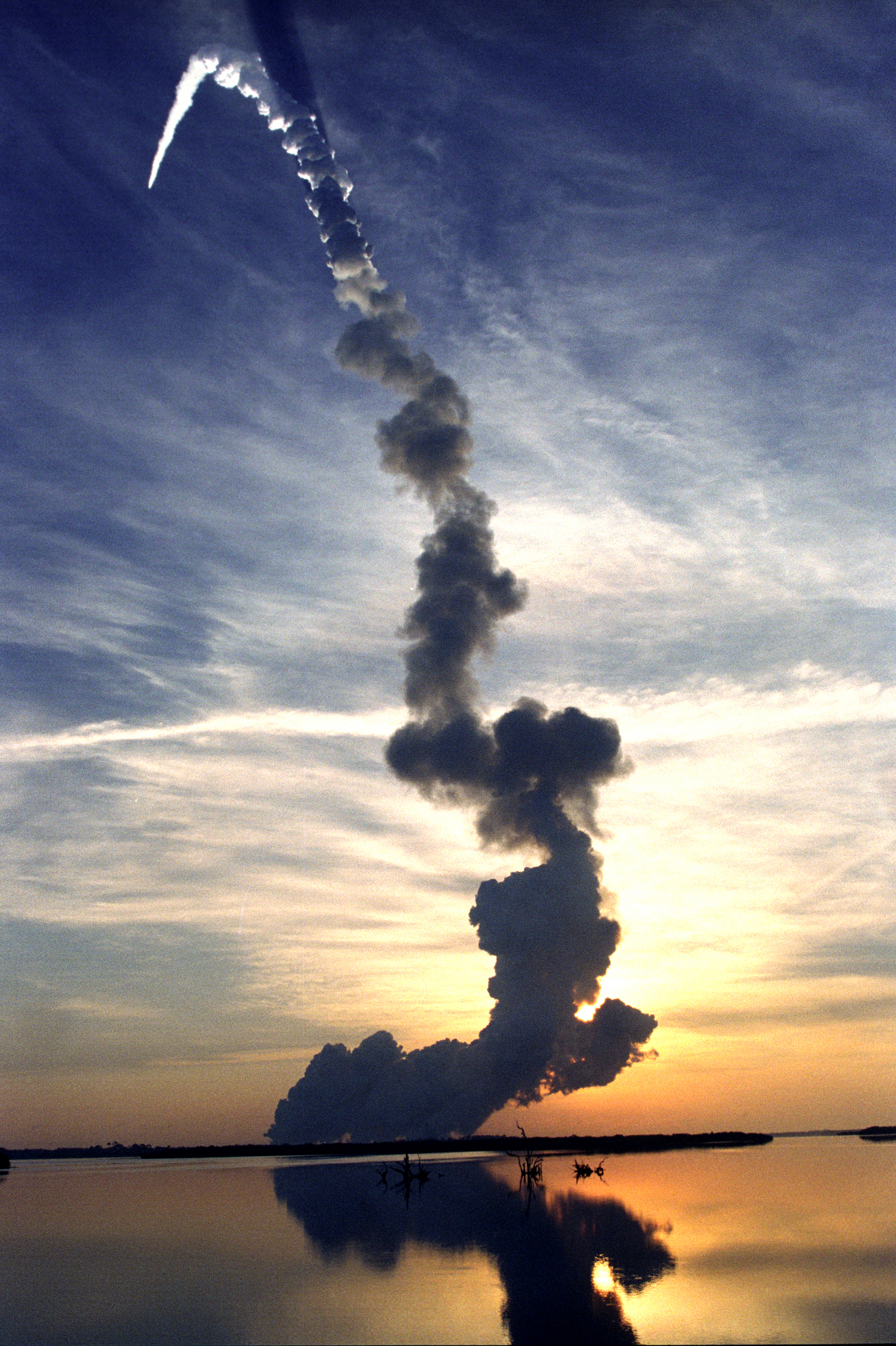 Collection: NASA Marshall Space Flight Center Collection Name of Image: STS-96 Launch Full Description: This spectacular photo is of the May 27, 1999 liftoff of the Orbiter Discovery (STS-96). The STS-96 mission, of almost 10 days, was the second International Space Station (ISS) assembly and resupply flight and the first flight to dock with the station. The crew installed foot restraints and the Russian built crane, STRELA. The Shuttle's SPACEHAB double module carried internal and resupply cargo for station outfitting and the Russian cargo crane was carried aboard the shuttle in the integrated Cargo Carrier (ICC). Date of Image: 1999-05-28 Reference Number: MSFC-75-SA-4105-2C MIX #: 9903915 NIX #: MSFC-9903915 MSFC Negative Number: 9903915 UID: SPD-MARSH-9903915 Original url: Visit for the most comprehensive compilation of NASA stills, film and video, created in partnership with Internet Archive.